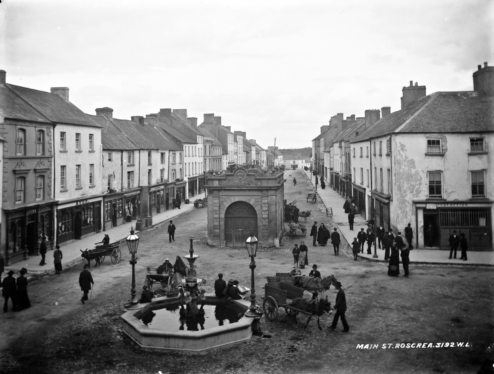 It's a long way from Tipperary South Riding and Cashel to Tipperary North Riding and Roscrea but only if you are trying to walk it! We started the week with a visit to Cashel of the Kings and here we have the Main Street of Roscrea of the Abbeys! This beautiful royal plate from Mr. French shows a scene of great activity, a public fountain and a mysterious building in the middle of the highway. I wonder what can help us to date the shot even if we cannot identify any of the donkeys? While we couldn't identify the beasts of burden, the burgeoning businesses seemingly help date this image to before c.1901. The fantastic fountain still stands apparently - though moved to nearby Rosemary Square. The marvelous and mysterious market house however did not survive the 1920s - perhaps unsurprising given its placement in the "middle of the road" and the coming of the motor car by then..... Photographer: Robert French Collection: Lawrence Photograph Collection Date: Catalogue range c.1865-1914. Definitely after c.1886 (central building). Possibly before c.1901 (businesses/census) NLI Ref: L_ROY_03192 You can also view this image, and many thousands of others, on the NLI’s catalogue at